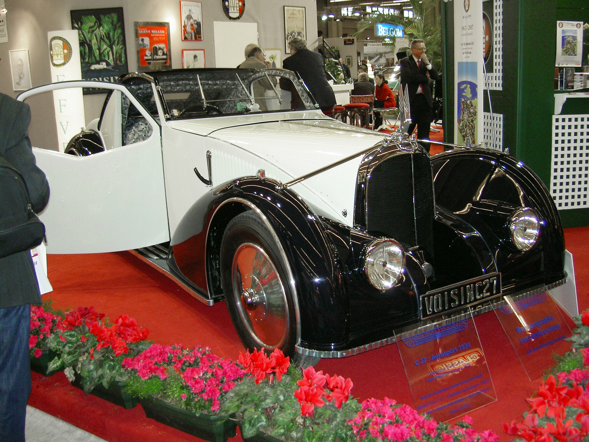 Voisin C27 'Aérosport' (French car, 1934), second of the two cars.